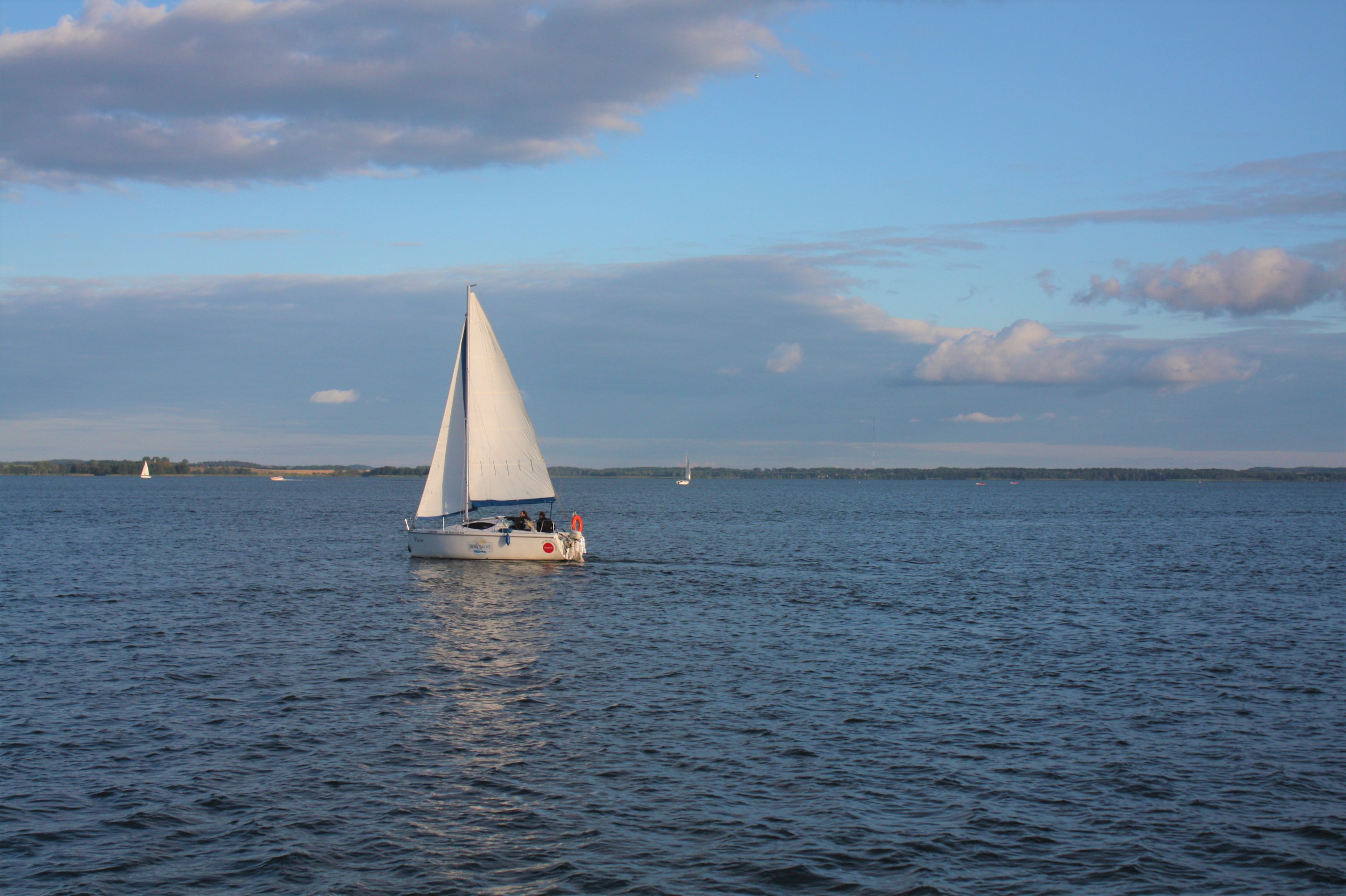 This photo of Warmian-Masurian Voivodeship was taken during Wikiexpedition 2012 set up by Wikimedia Polska Association. You can see all photographs in category Wikiekspedycja 2012. The making of this document was supported by Wikimedia Polska.